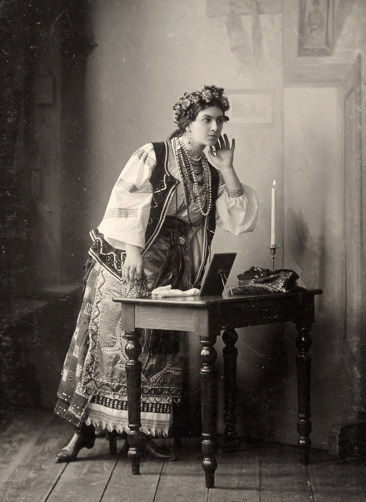 Photographic image of Russian dancer Sofia Federova (1879-1963) in costume. Dated on verso as 1904/1909. MS Thr 414.2 (44), MS Thr 414.2 (43), Howard D. Rothschild Collection on Ballets Russes of Serge Diaghilev: Photographs and Scrapbooks, Harvard Theatre Collection, Houghton Library, Harvard University